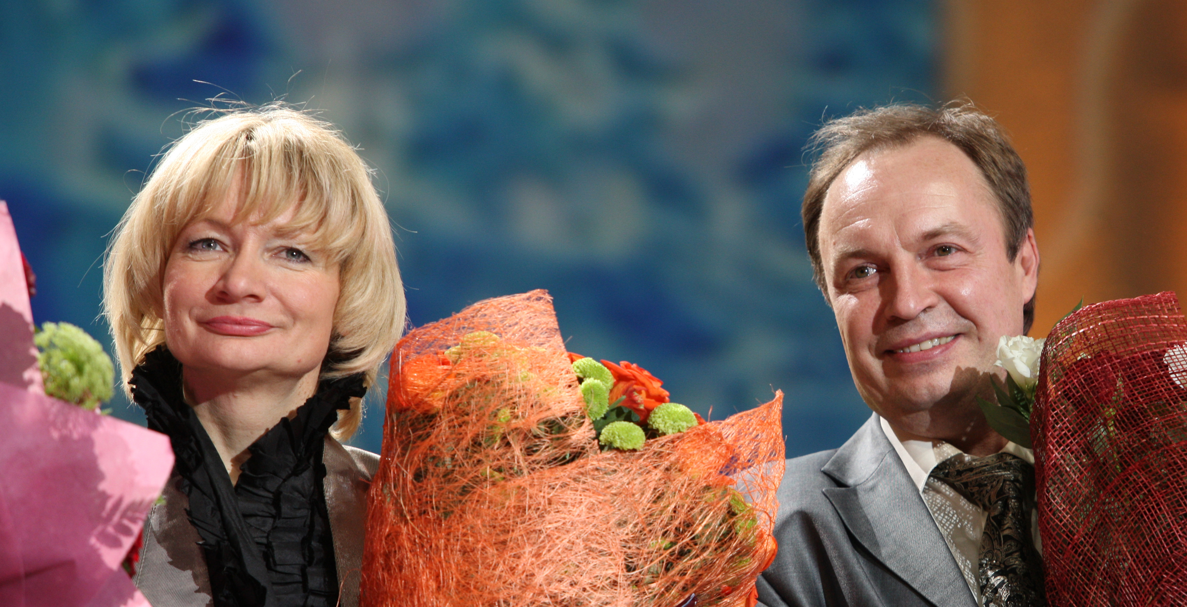 Olga Udahina and Ivan Zhiganov